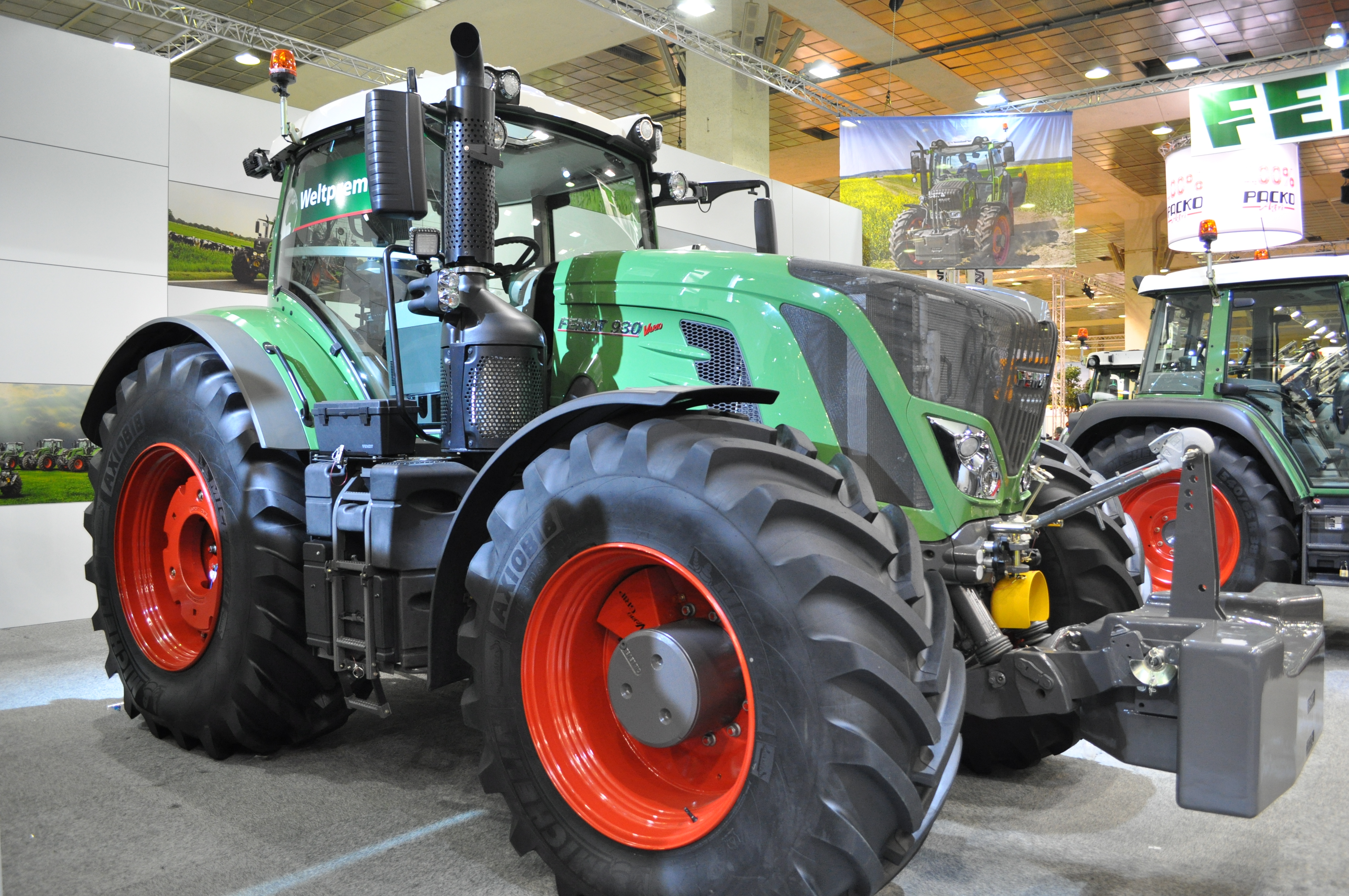 Photo of a new Fendt 930 at Agribex Brussels on 06/11/2013